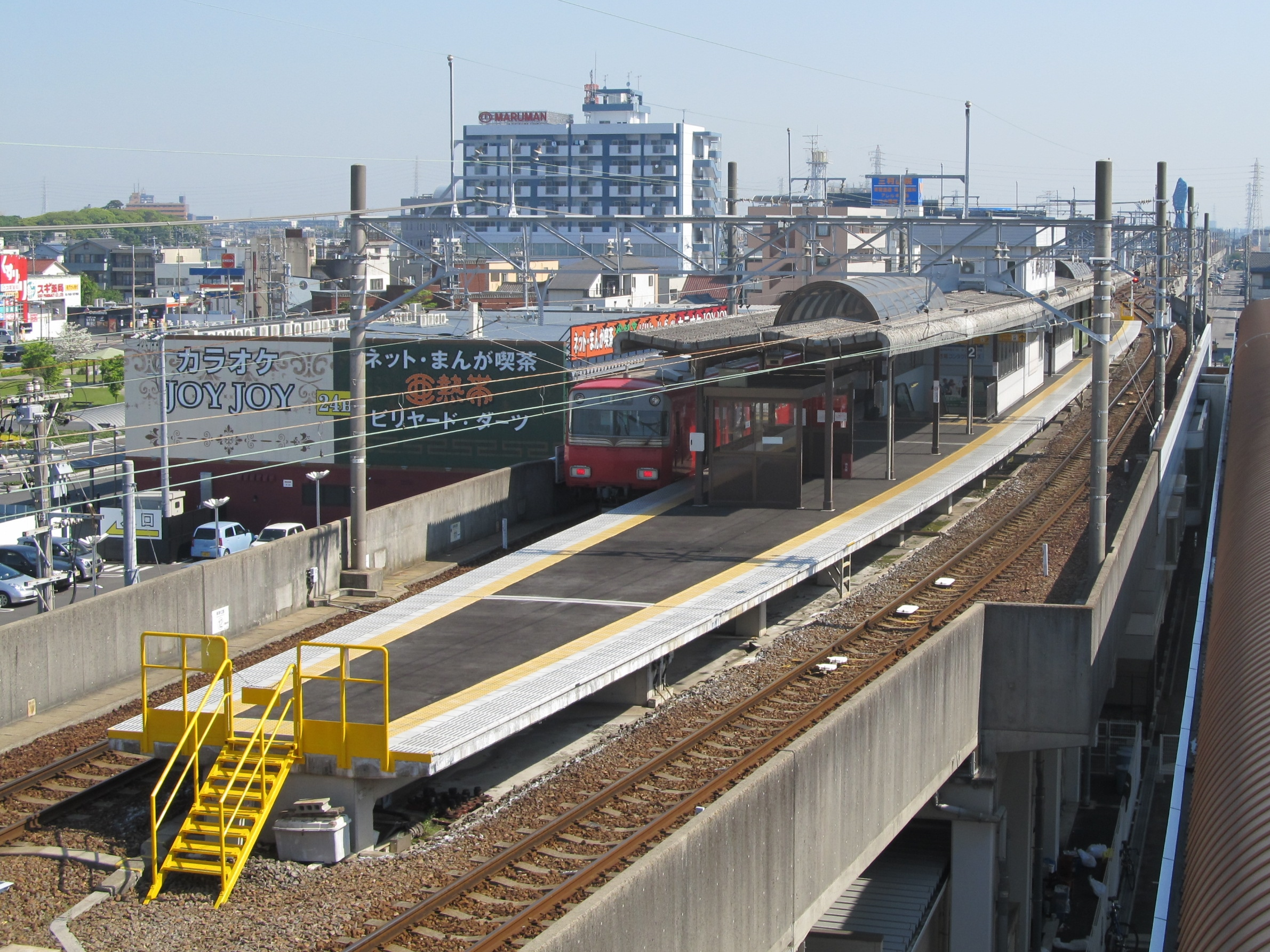 Nagoya Railroad Nishio Line Nishio Station Platform